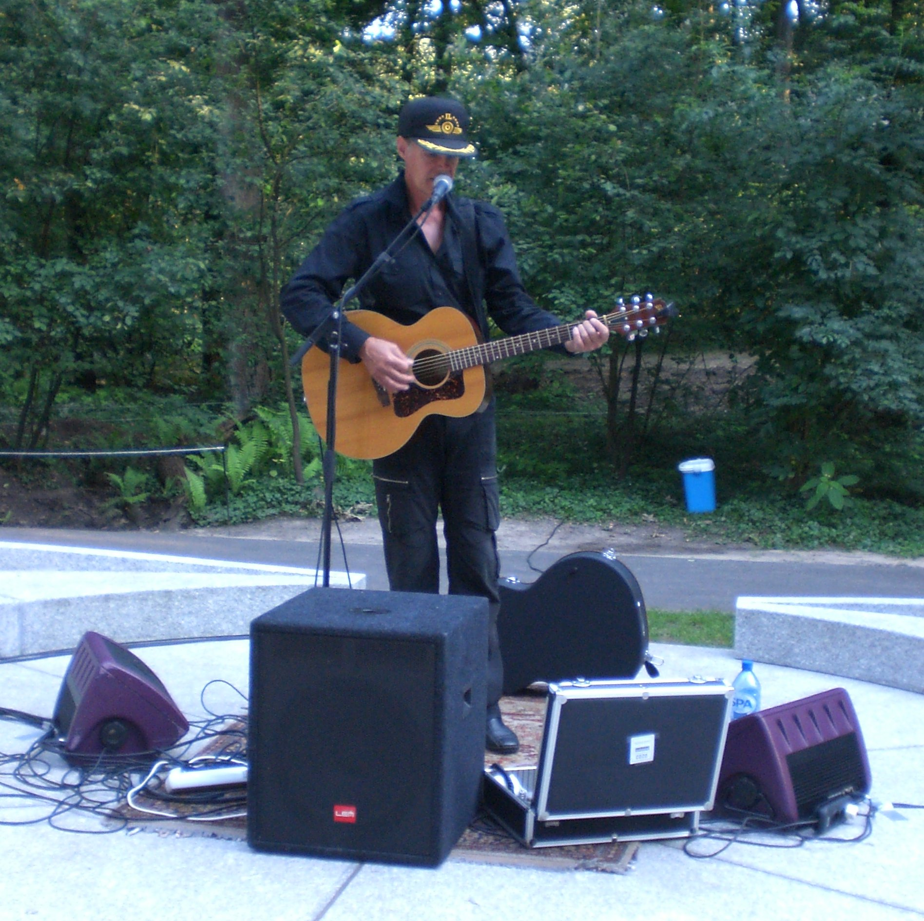 Dutch Artist Ad Visser, performing in Museum Kröller Müller